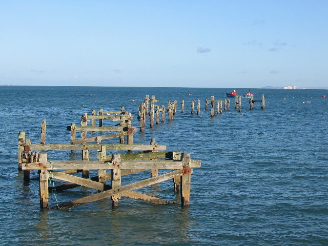 The Original Swanage Pier. The original Swanage pier was built in 1859/60 by James Walton of London for the Swanage Pier and Tramway Company